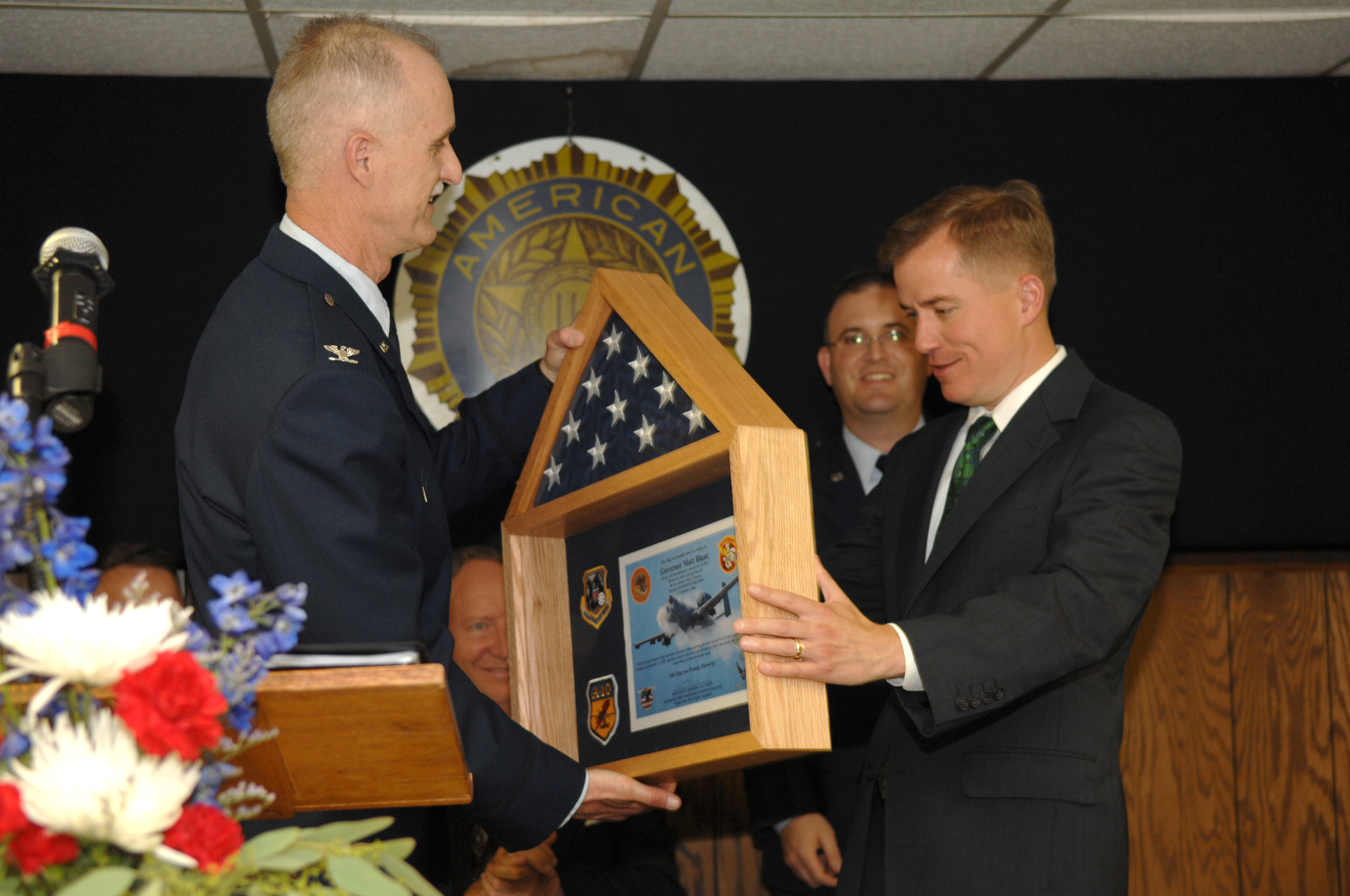 Col. Steve Arthur, left, presents Missouri Governor Matt Blunt with an American flag flown on a combat mission over Afghanistan and certificate following a bill-signing ceremony in Warrensburg, Mo., June 11, 2008. Colonel Arthur is the commander of the 442nd Fighter Wing, an Air Force Reserve Command A-10 unit based at Whiteman Air Force Base, Mo. The presentation also included two patches and a replica 30-millimeter bullet, which is fired from the gun mounted on the front of the A-10 Thunderbolt II. Governor Blunt visited Warrensburg to sign Missouri House Bill 1678, which provided education relief to children of military members in Missouri. In 2006 Governor Blunt visited deployed members of the 442nd Fighter Wing in Afghanistan and presented them with a Missouri state flag, which was flown over the flightline during that deployment. The flag presented to the governor was flown in an A-10 on Sept. 11, 2006, five years after the attack on the World Trade Center buildings in New York and on the Pentagon. (U.S. Air Force photo/Senior Airman Jessica Snow)